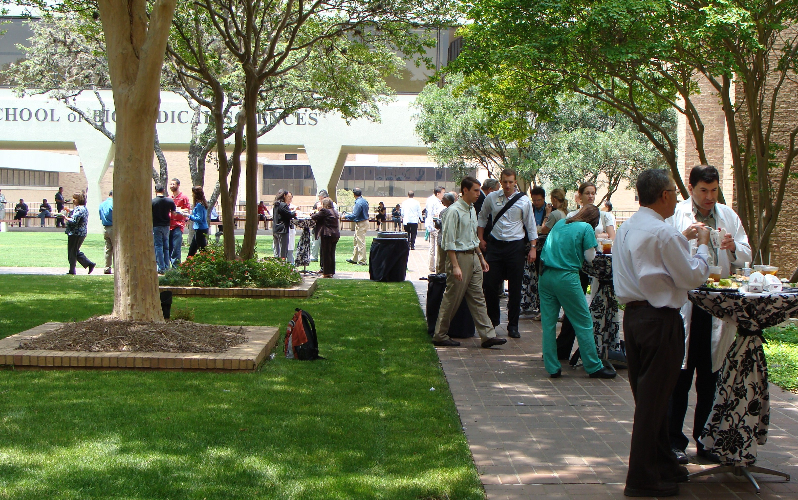 Med students and residents and faculty gathered for lunch at The UT Health Science Center at San Antonio's Graduate School of Biomedical Sciences courtyard.